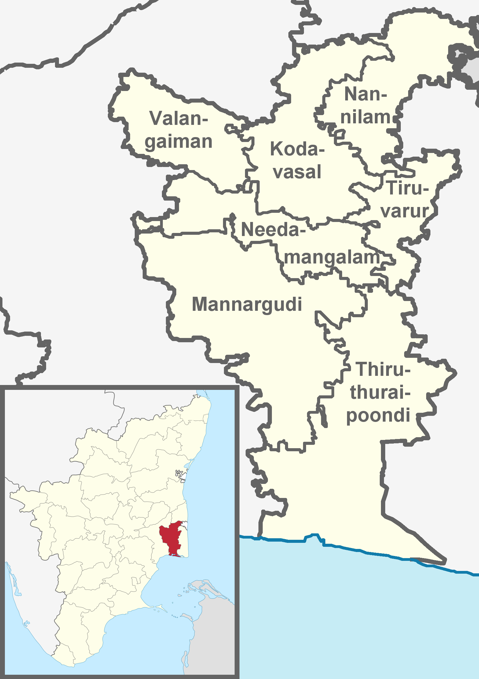 Taluks (sub-districts) of Tiruvarur district (Tamil Nadu, India)